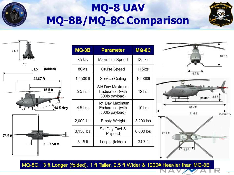 Size and performance differences between the two Fire Scout drones.